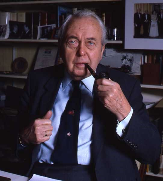 Lord Harold Wilson portrait